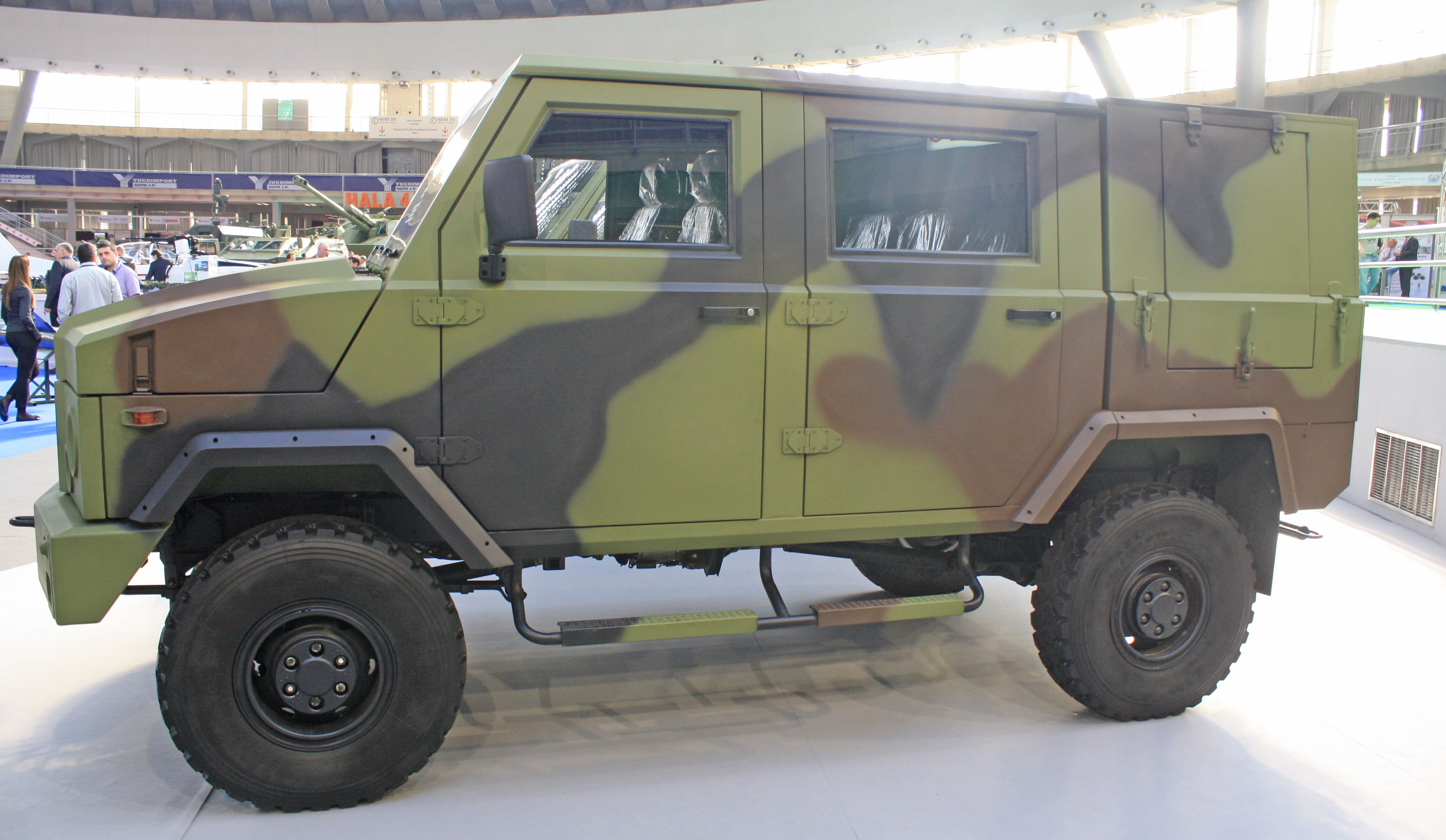 New military truck from Zastava Trucks, NTV 40.13 in 5+1 configuration on display at Partner 2013 military fair.